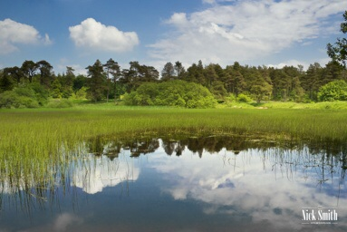 A landscape view of priddy pond, Somerset, mendip by Nick Smith